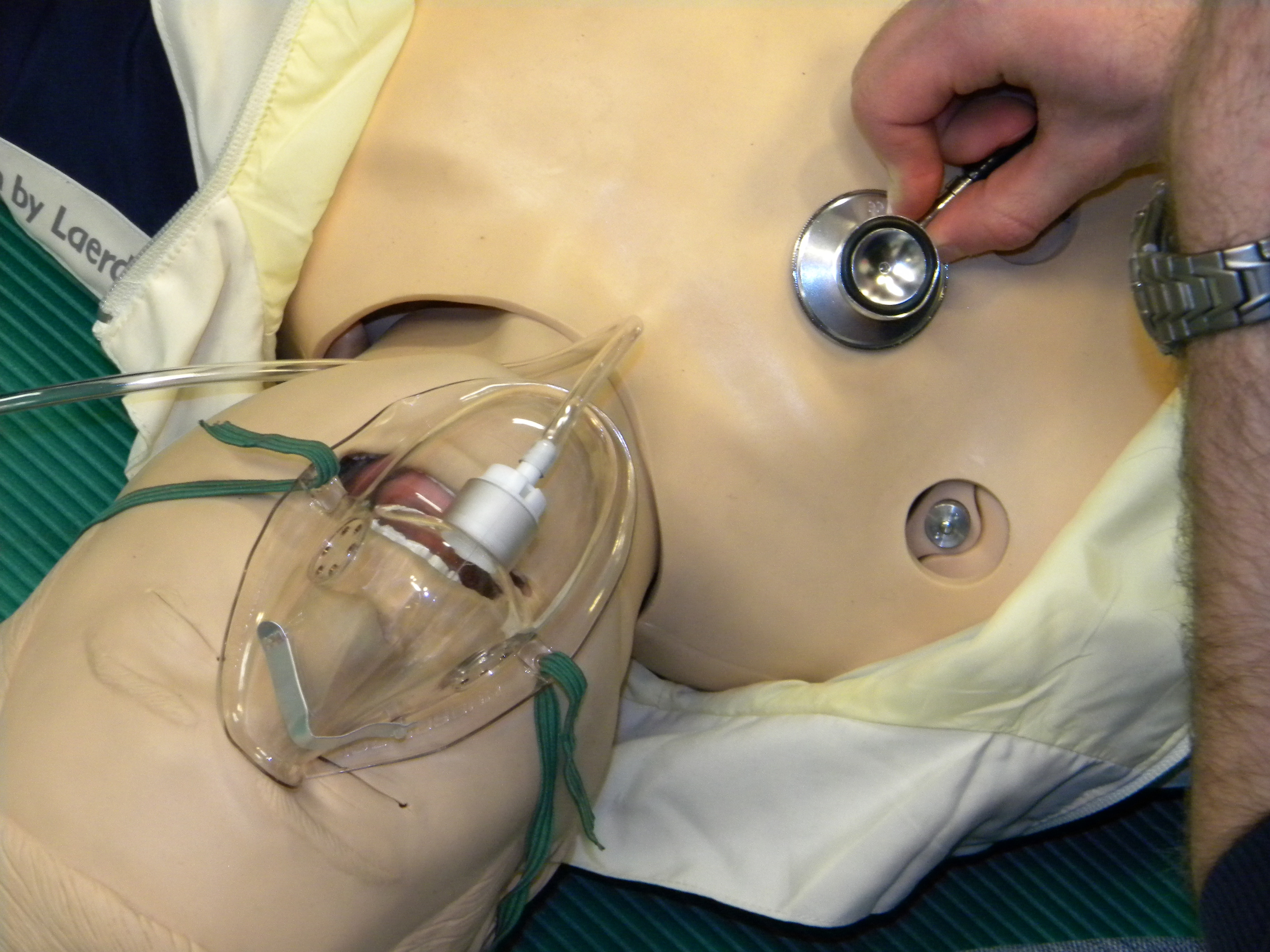 Auscultation of lungs / Auscultation of pulmonary sounds / Auscultation of breath sounds /Auscultation of respiratory sounds of a doll with a stethoscope in an out-of-hospital exercise. The oxygen mask seems to be sligtly oversized...